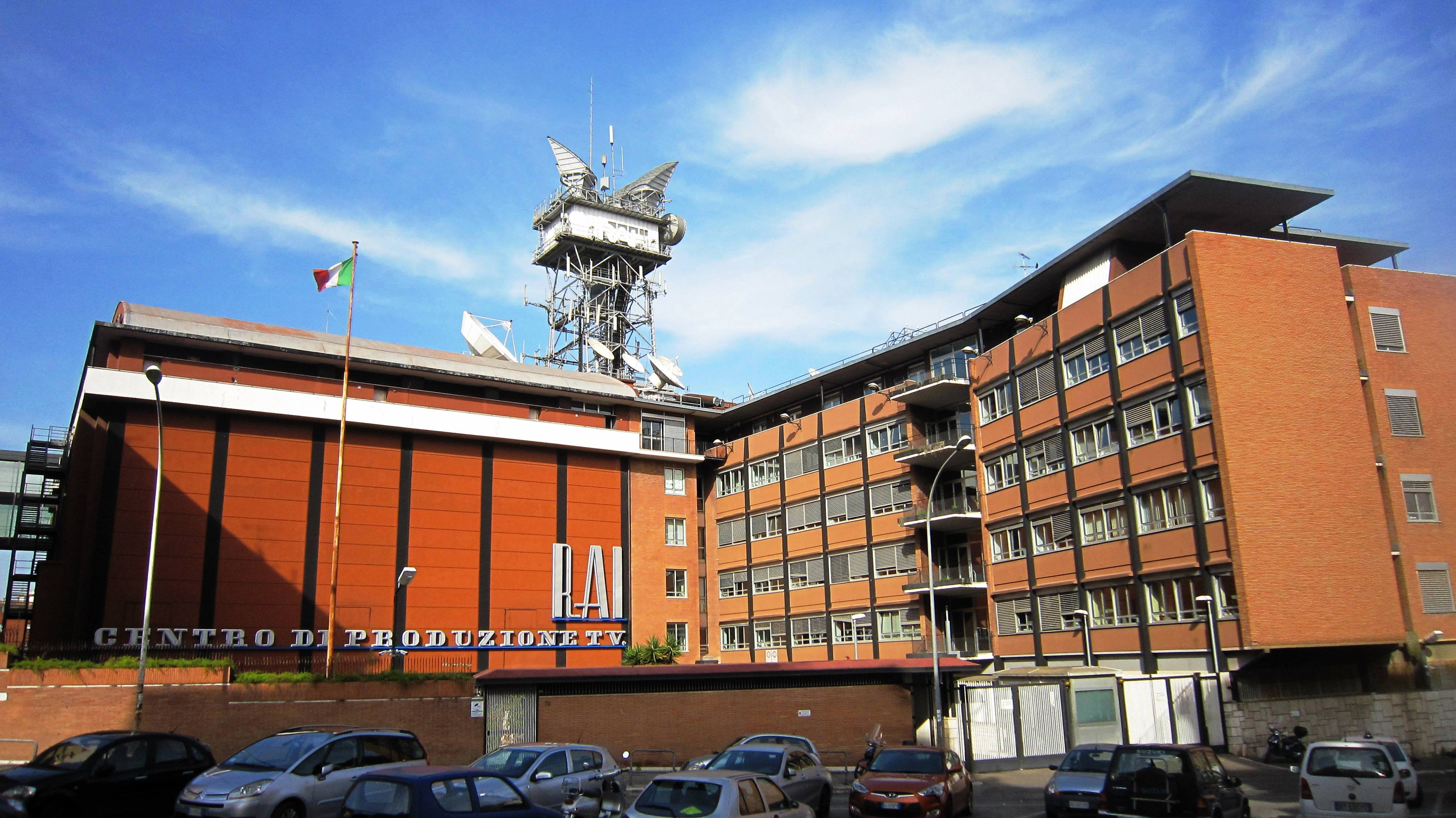 Rai Via Teulada Roma